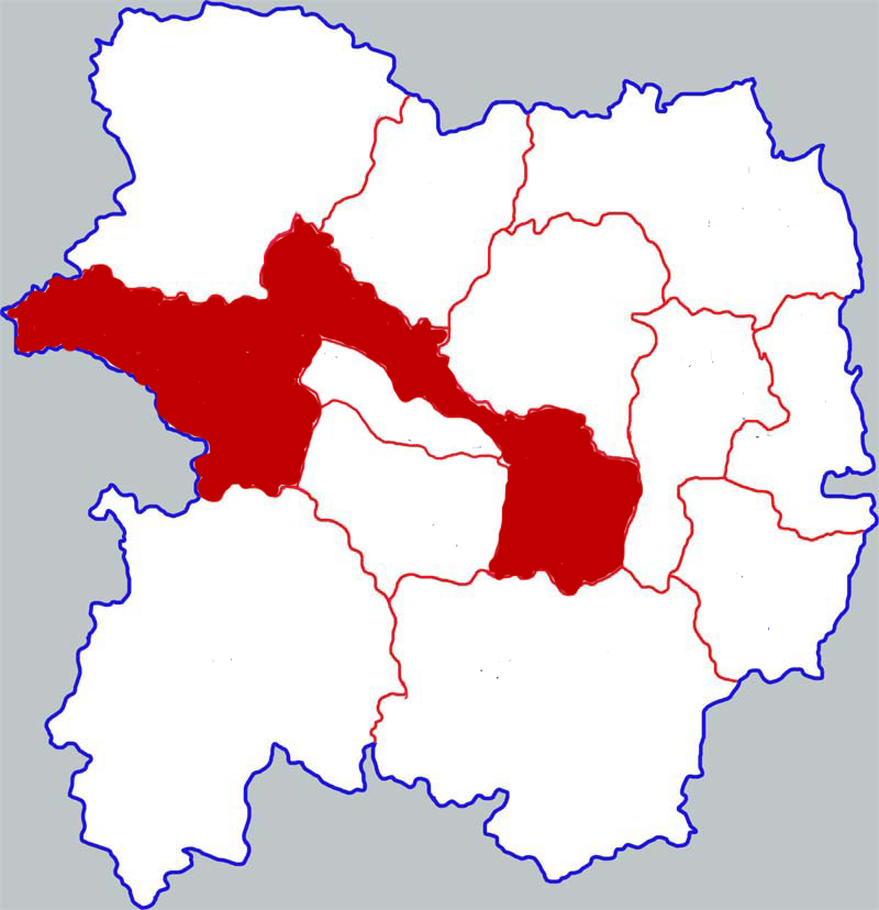 Location of Chencang district in Baoji city, China